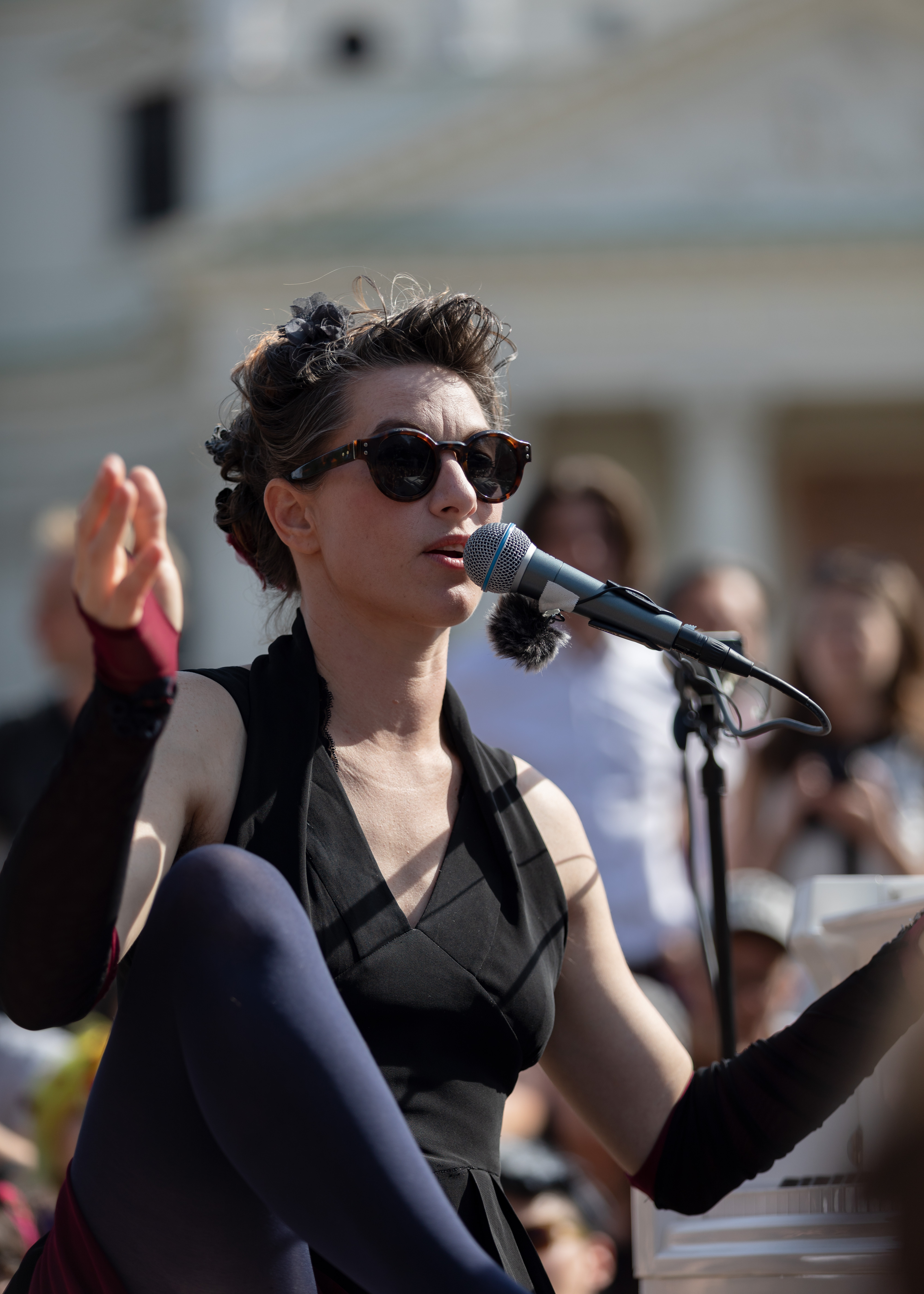 Amanda Palmer, charity concert for Open Piano for Refugees at Karlsplatz in Vienna, Austria.